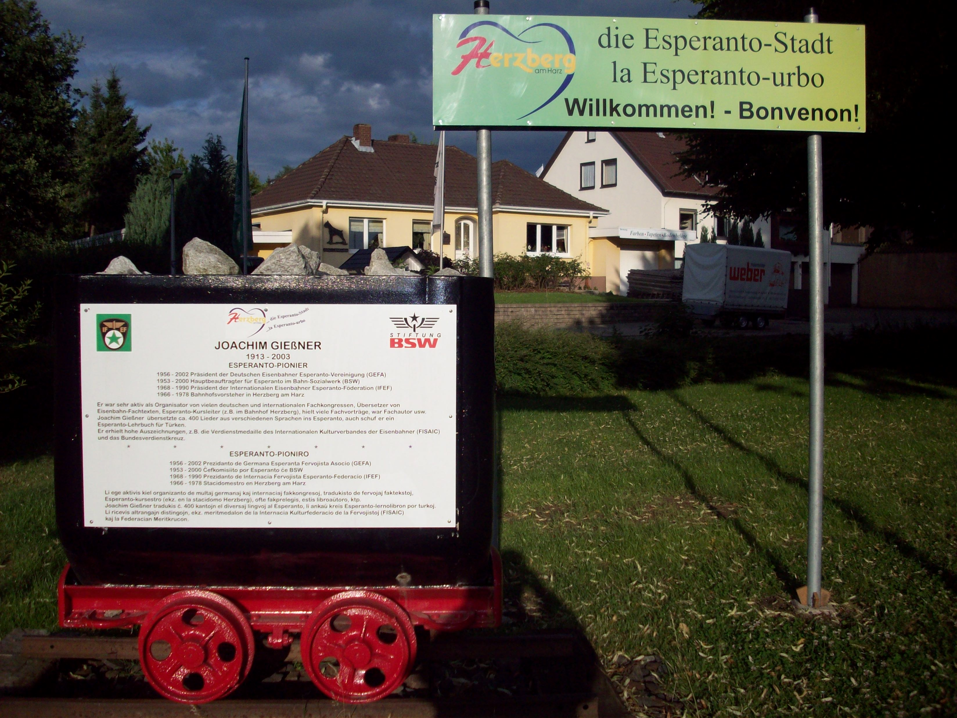 monument for Joachim Gießner in Herzberg-am-Harz, Germany